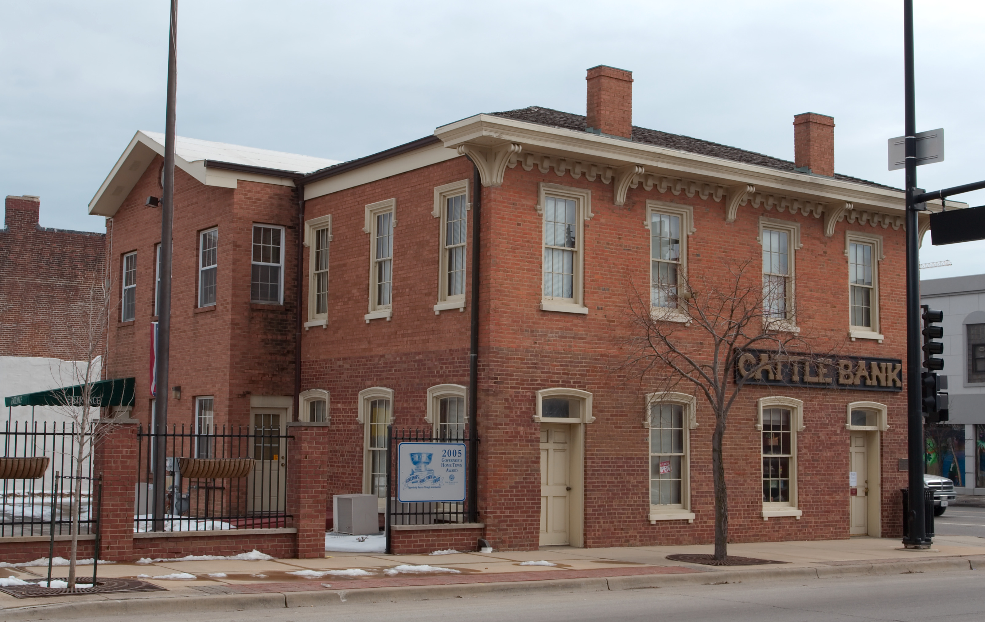 The Champaign County Historical Museum, Champaign, IL